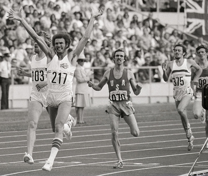 1979 Press Photo Cuban athlete Alberto Juantorena is subject of PBS WORLD Series